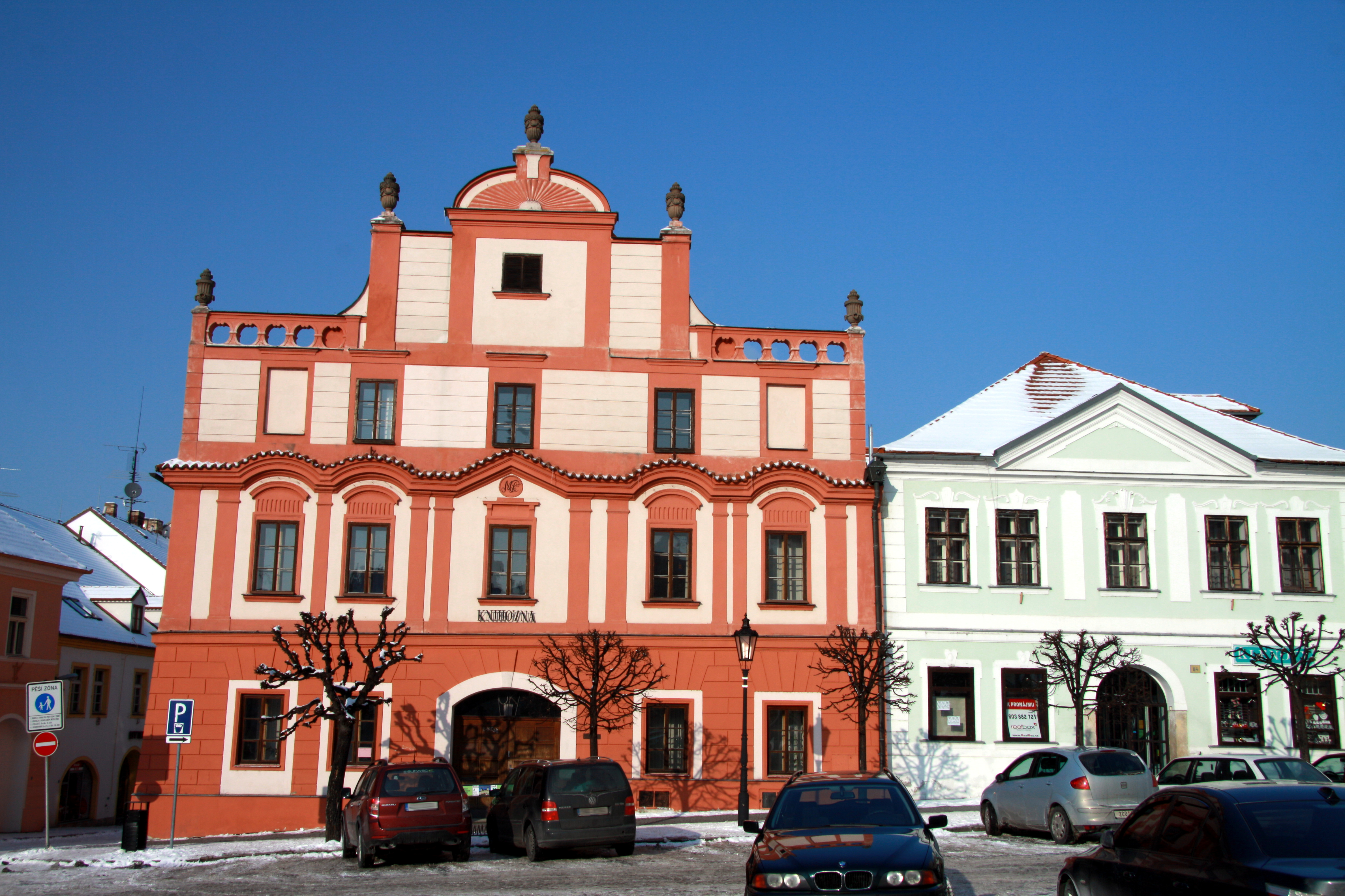 Municipal library in Písek on Alšovo square, Písek District, Czech Republic